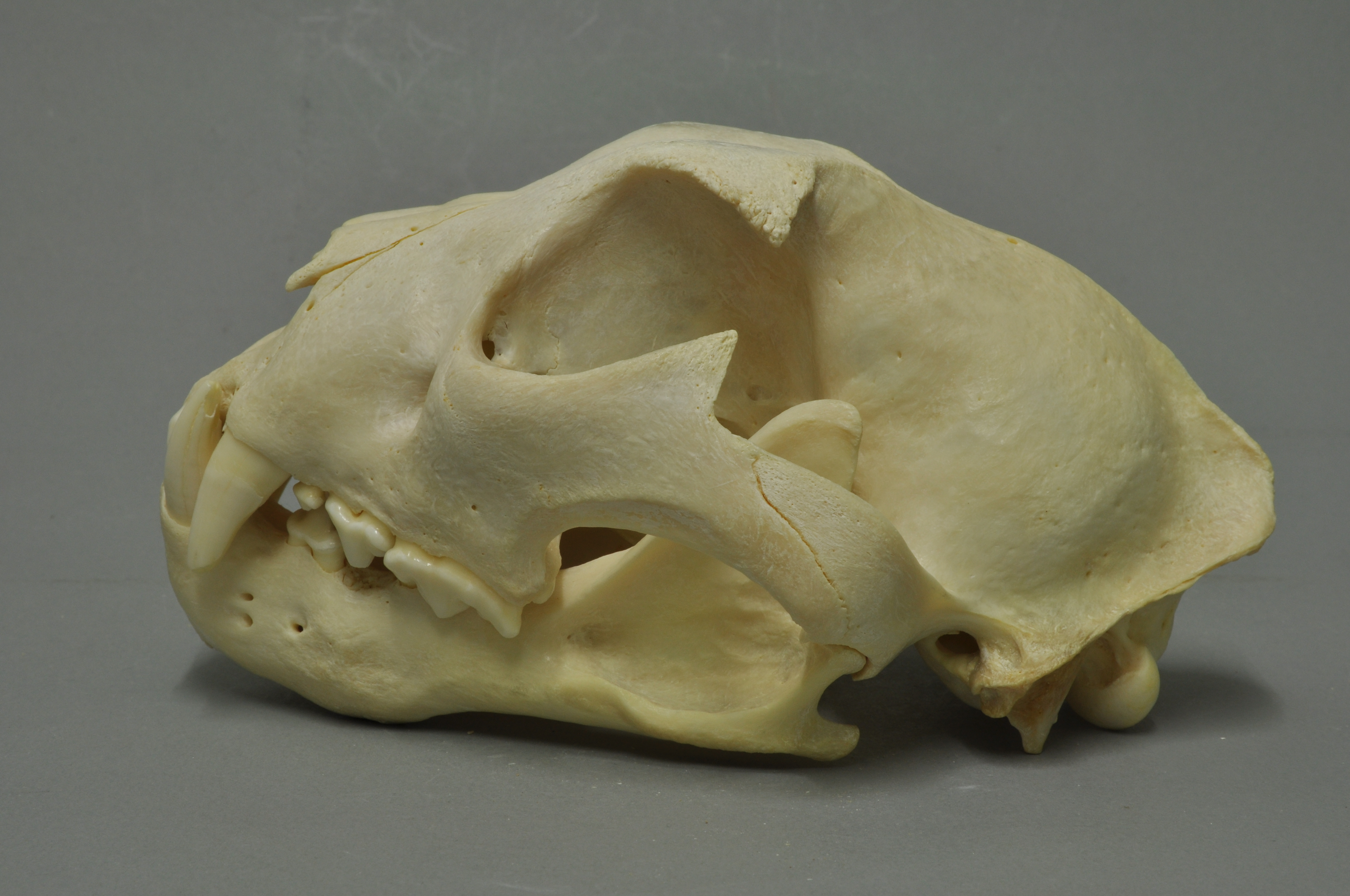 Snow leopardPanthera uncia, skull, Coll. Museum Wiesbaden